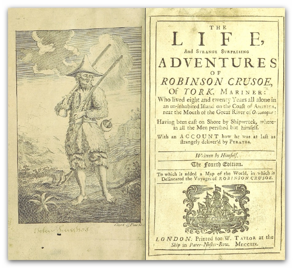 Page 9 of Life and Strange Surprizing Adventures of Robinson Crusoe, etc.